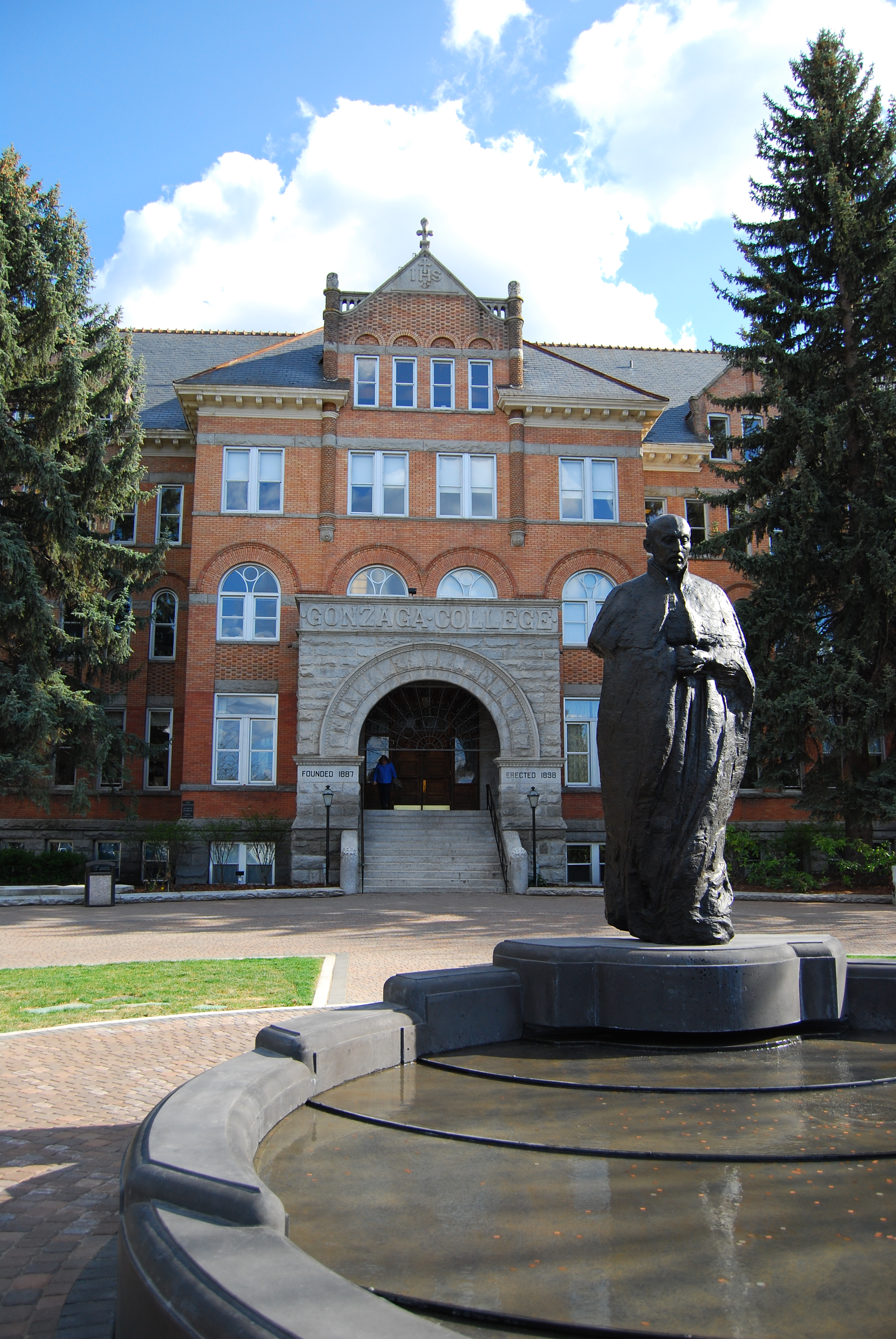 The main entrance of Gonzaga University in Spokane, WA, looking toward the administration building. © Matthew Hendricks (image self-created by SCUMATT 04:55, 9 May 2008 (UTC)).